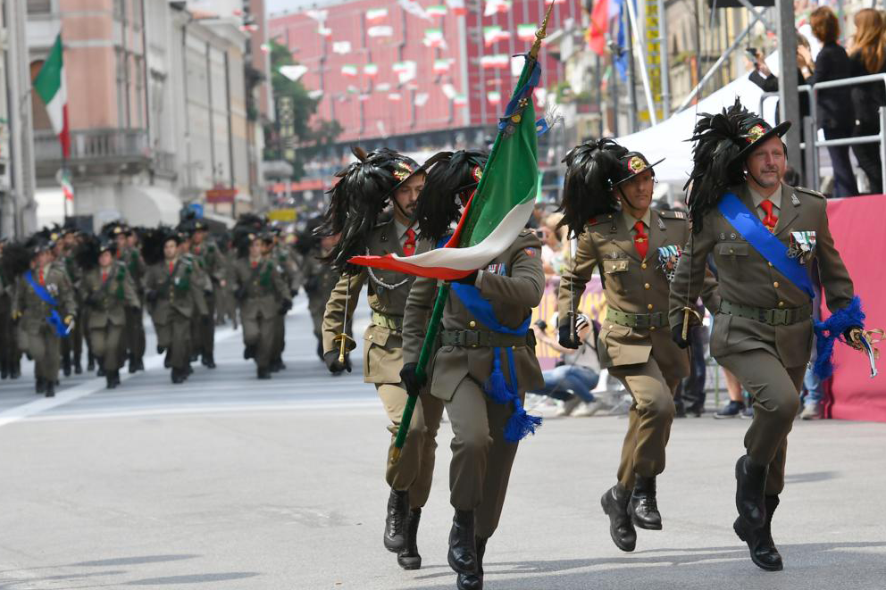 Italian Army - the honor guard of the 11th Bersaglieri Regiment with the regiment's war flag at the 66th National Rally of the Bersaglieri infantry speciality in 2018